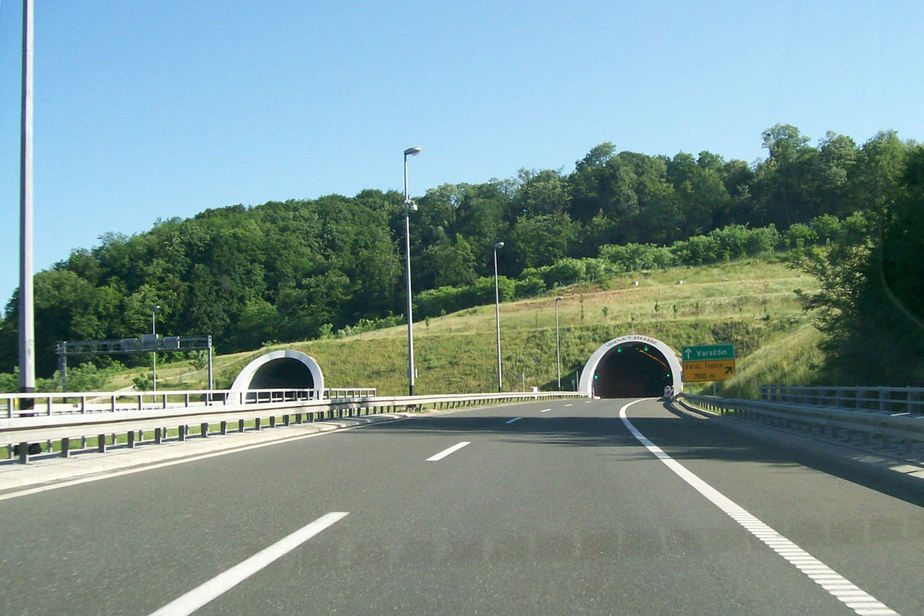 Croatian A4 highway near exit Varaždinske Toplice